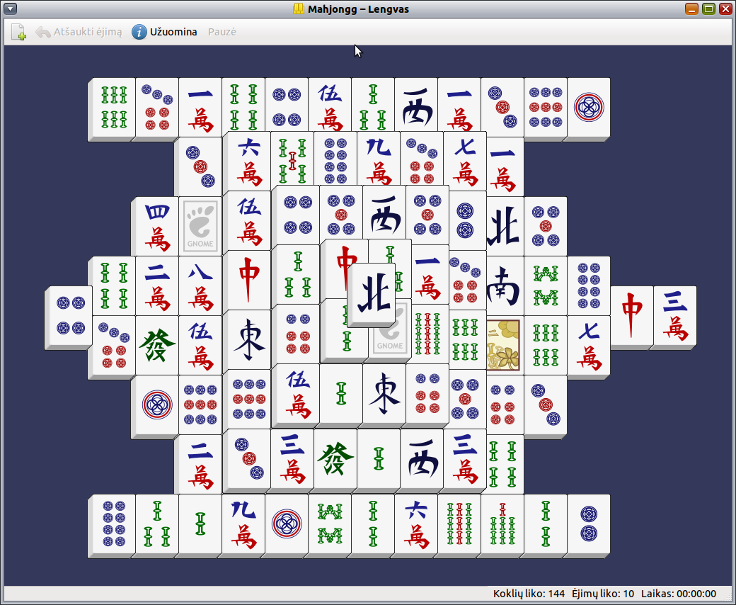 Screenshot of Mahjong Solitaire game running on Baltix GNU/Linux Desktop 2011/Ubuntu Linux 11.04 operating system